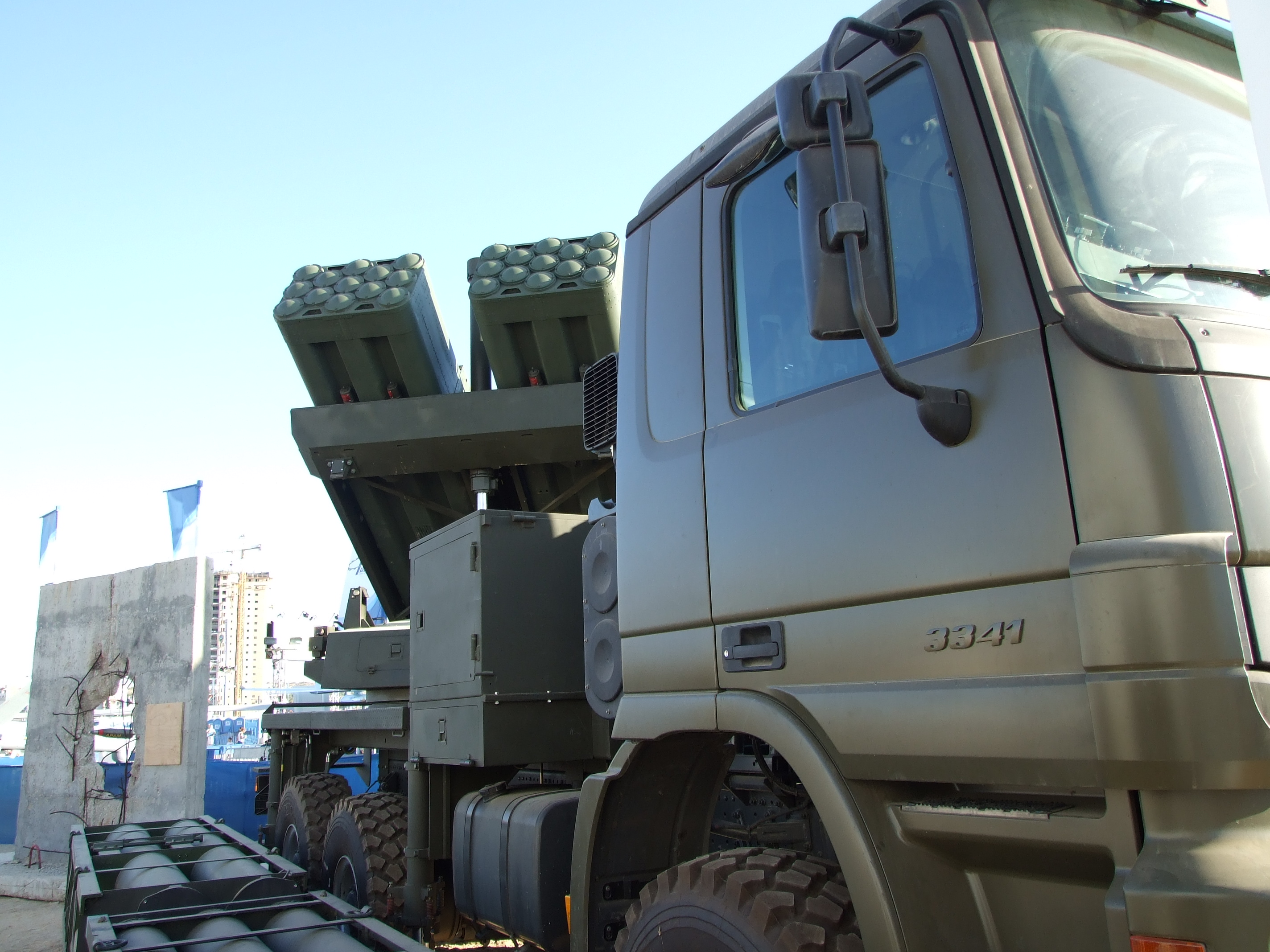 Lynx vehicle with a LAR-160 multiple rocket launcher mounted on it.